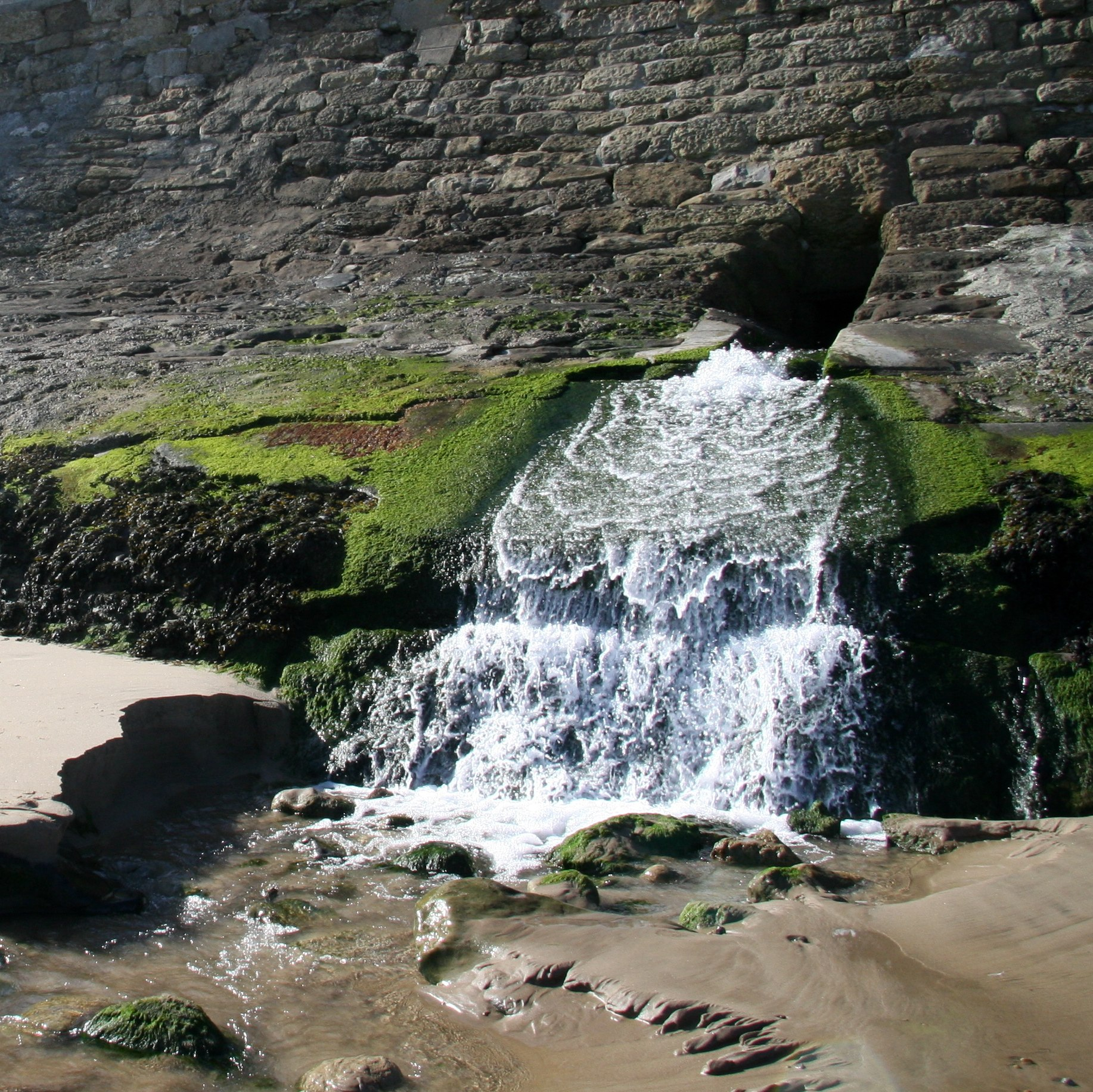 Cayton land drainage pumping station outfall The photograph shows the outfall from Yorkshire Water Cayton land drainage pumping station. For a photograph of the pumping station, click here .